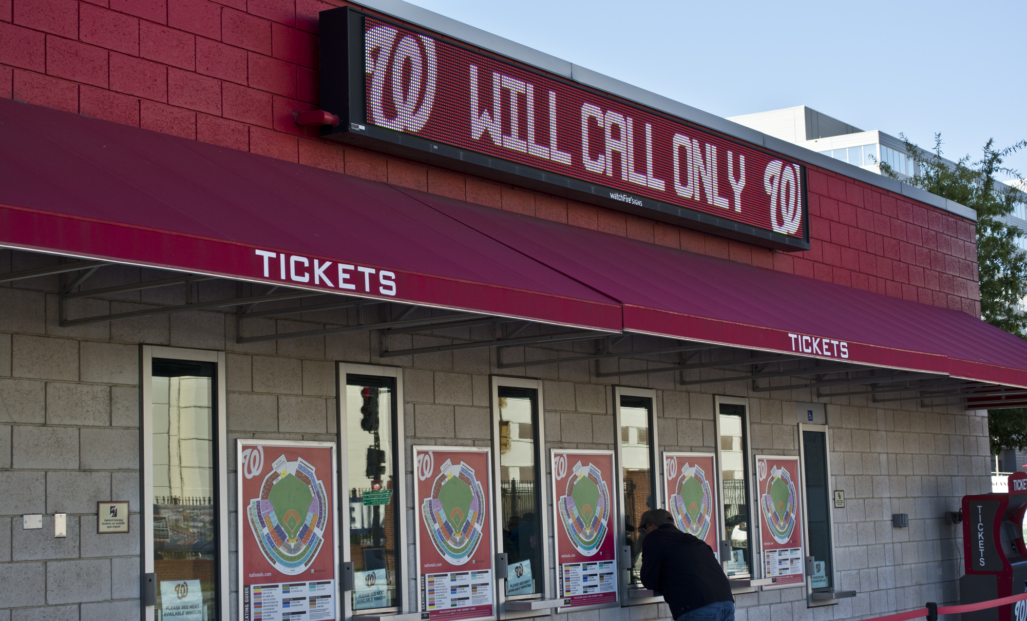 Will-call windows at Nationals Park in Washington, D.C., in the United States. The stadium is home to the Washington Nationals, a team belonging to Major League Baseball.